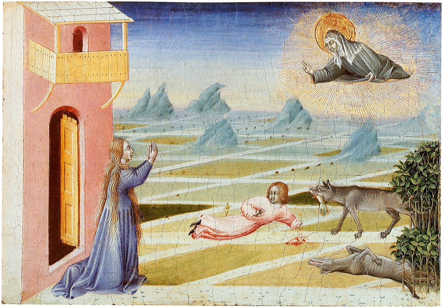 saint clare of assisi saving a child from a wolf